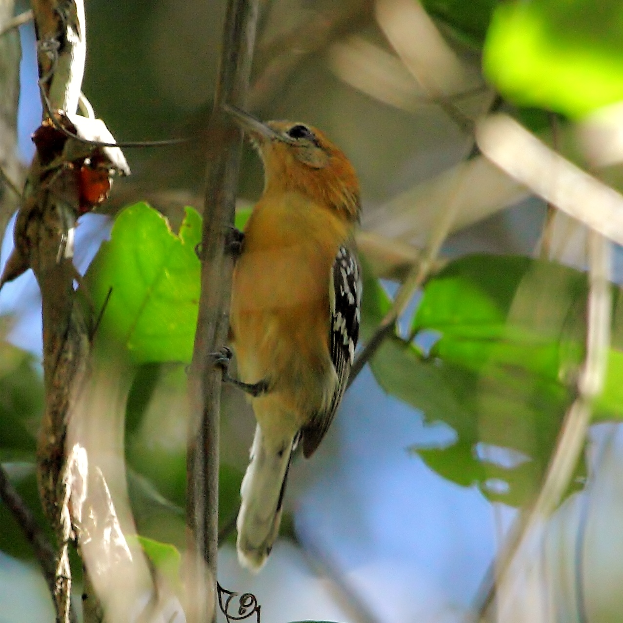 Large-billed Antwren (female) at Poconé - MT - Brazil